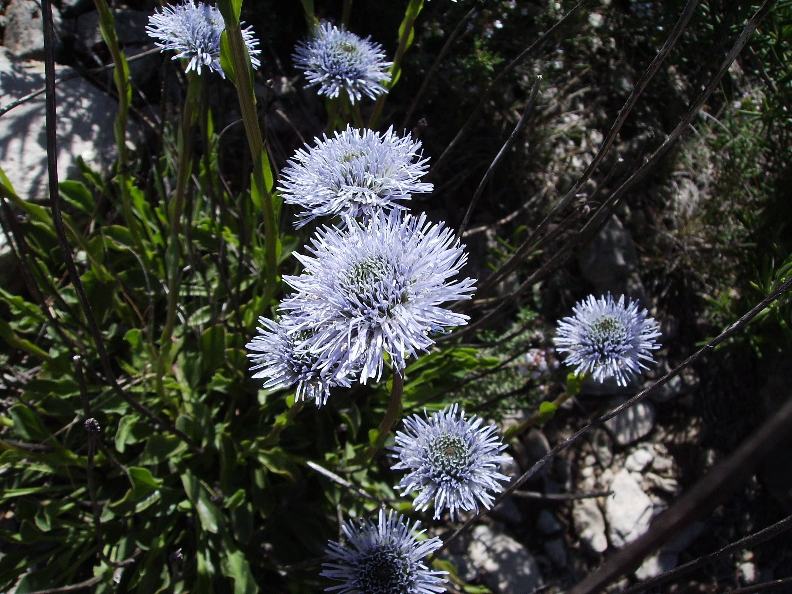 Globularia vulgaris in the wild Castelltallat Catalonia